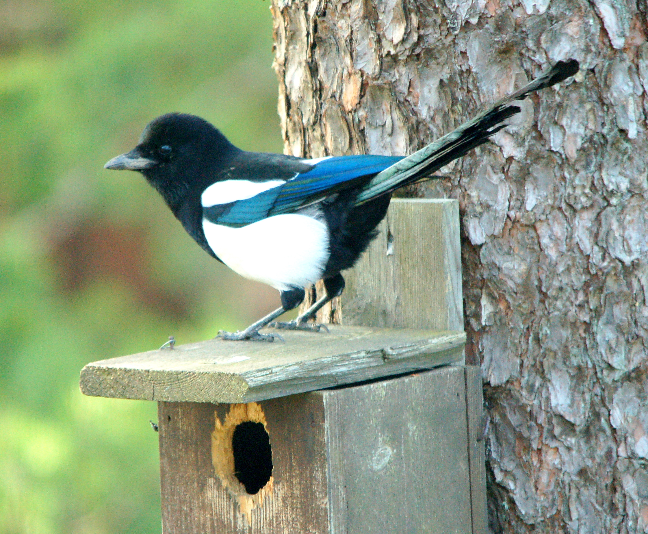 The European Magpie, also Eurasian Magpie and Common Magpie (Pica pica) in Larvik, Norway